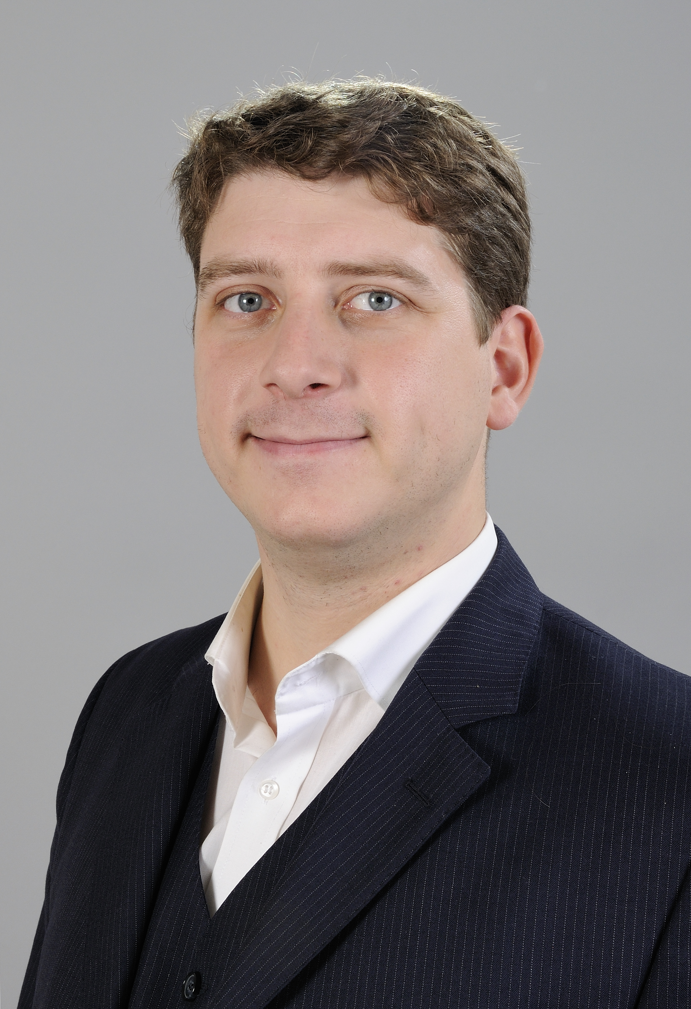 Fabio Reinhardt, Berlin politician (Pirate party) and member of the Abgeordnetenhaus of Berlin (as of 2013).